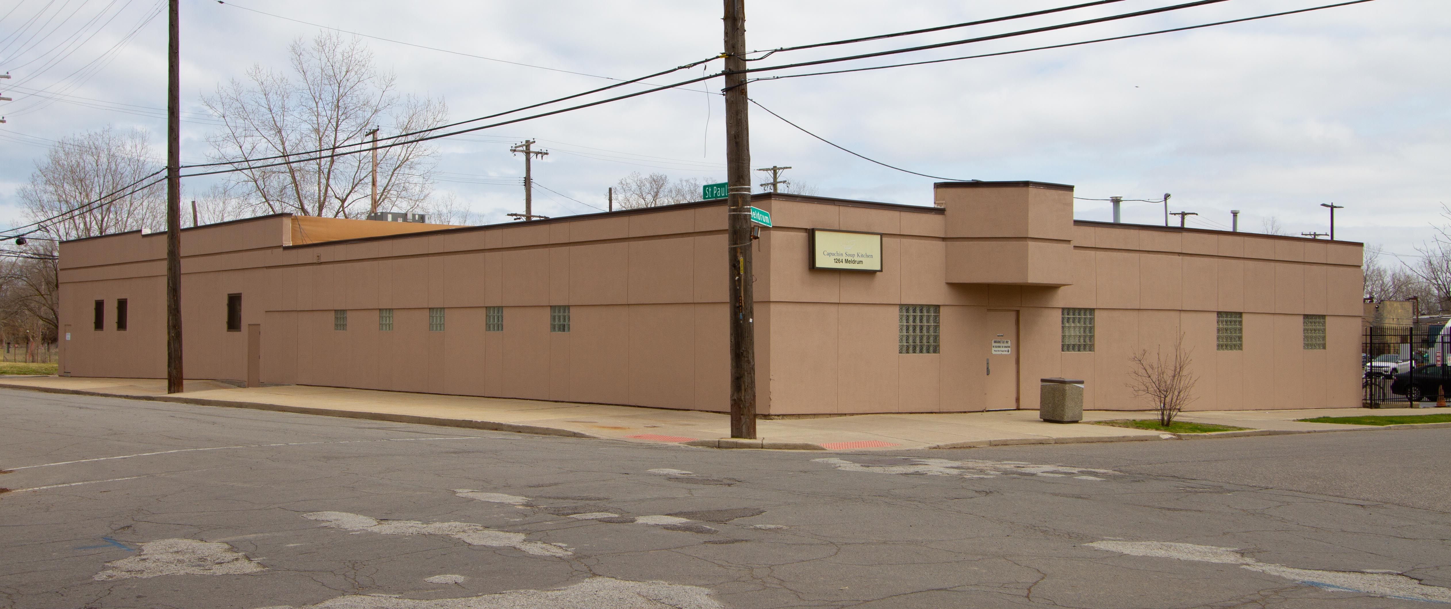 Capuchin Soup Kitchen, Meldrum meal site, located at 1264 Meldrum Street, Detroit, Michigan, USA